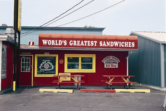 The original Jimmy John's shop in Charleston, Illinois opened 13 January 1983.